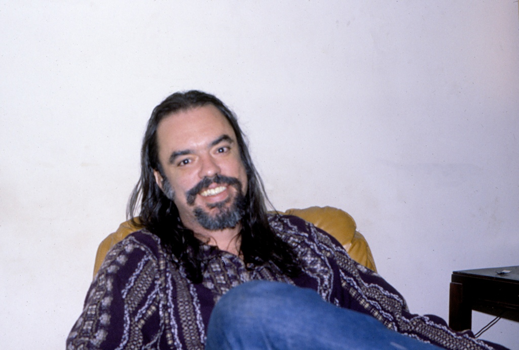 Root Boy Slim, aka Foster MacKenzie, III resting at his apartment after one of his performances with the Sex Change Band in 1979 at the Takoma Tap Room in Takoma Park, MD